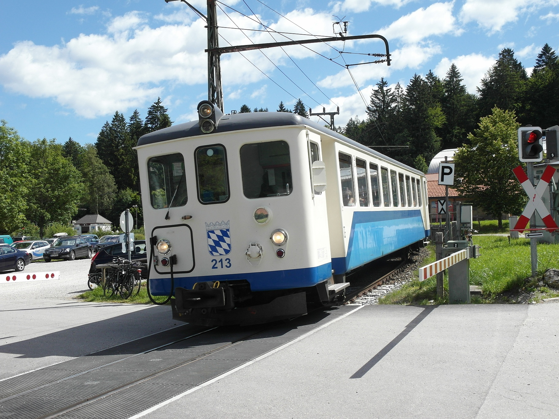 Train of the Bavarian Zugspitze Railway, coming from Garmisch, shortly after leaving the stop at the Alpspitz/Kreuzeck cable car station